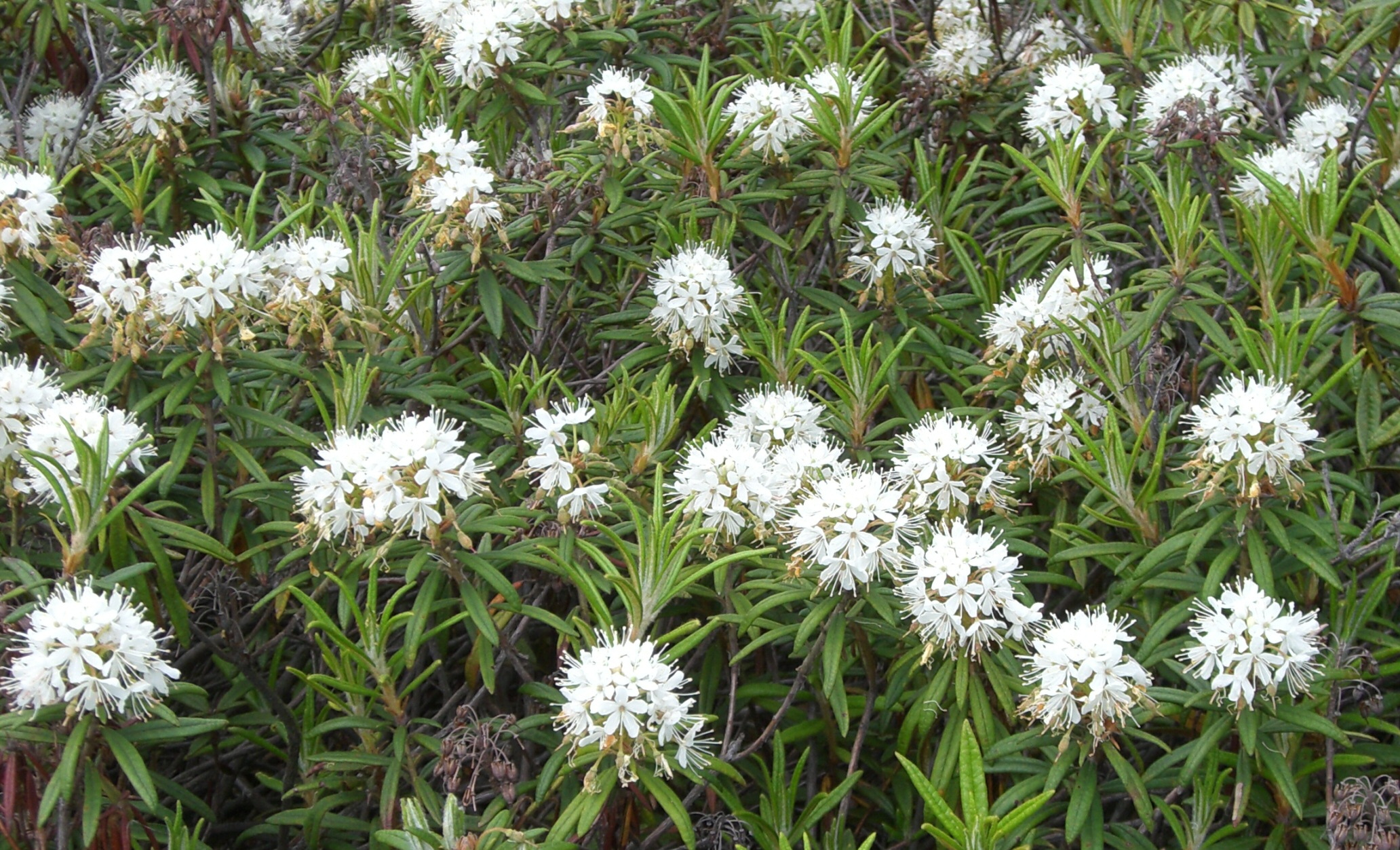 Rhododendron tomentosum (syn. Ledum palustre), Hokkaido, Japan